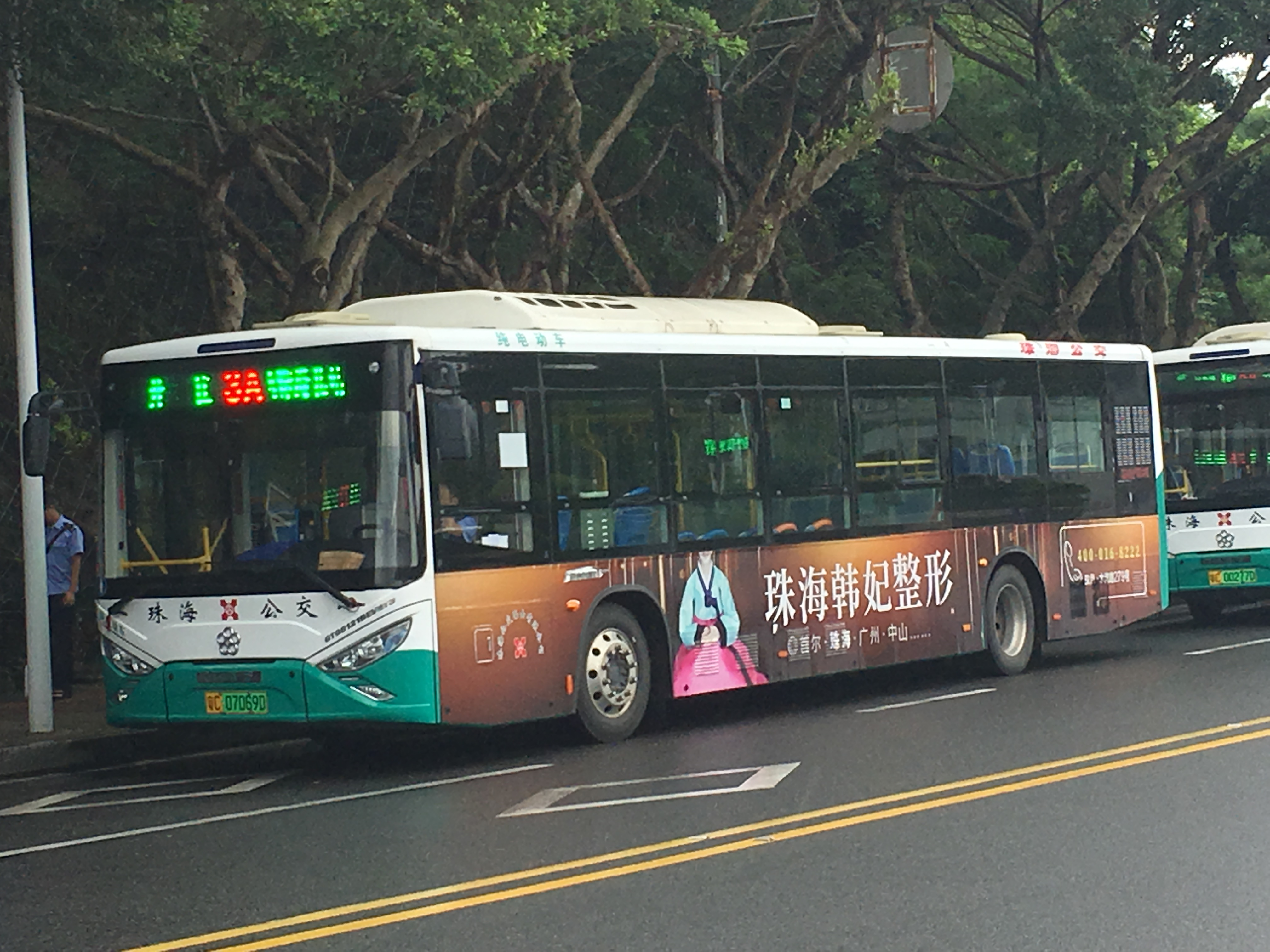 中文（香港）: This photo is taken in Jiuzhou Port.